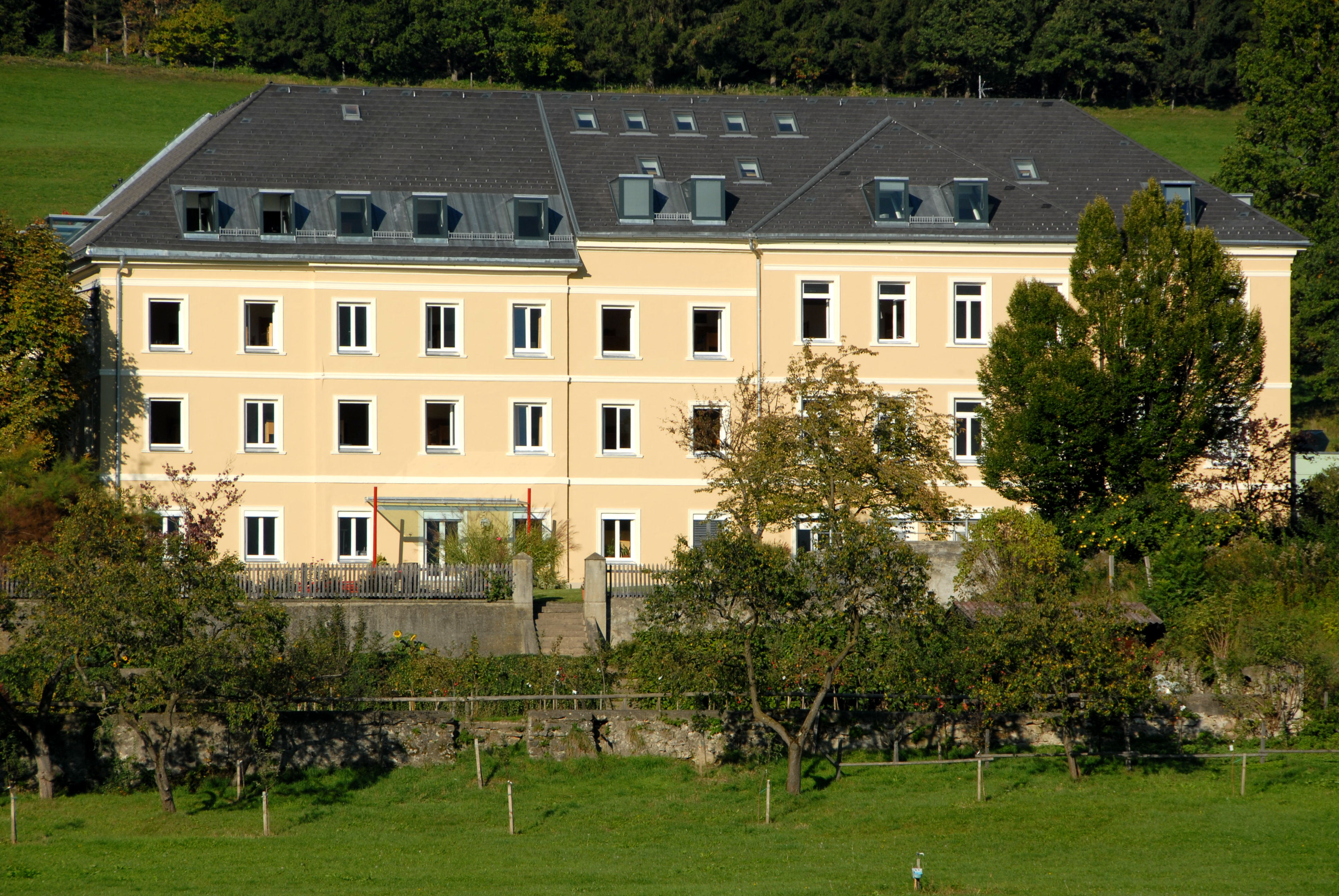 Castle Litzlhof (agricultural college and teaching center) in Litzlhof #1, municipality Lendorf, district Spittal an der Drau, Carinthia, Austria, EU